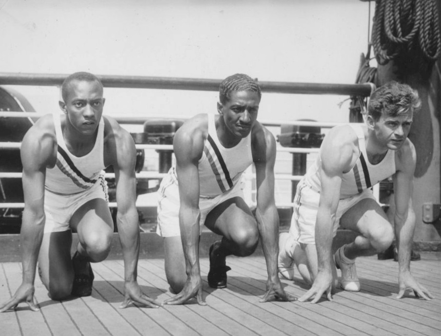 Photo of US Olympic team sprinters (from left) Jesse Owens, Ralph Metcalfe and Frank Wykoff on the deck of the S.S. Manhattan before they sailed for Germany to compete in the 1936 Olympics. They're shown doing a light warm-up on the deck.